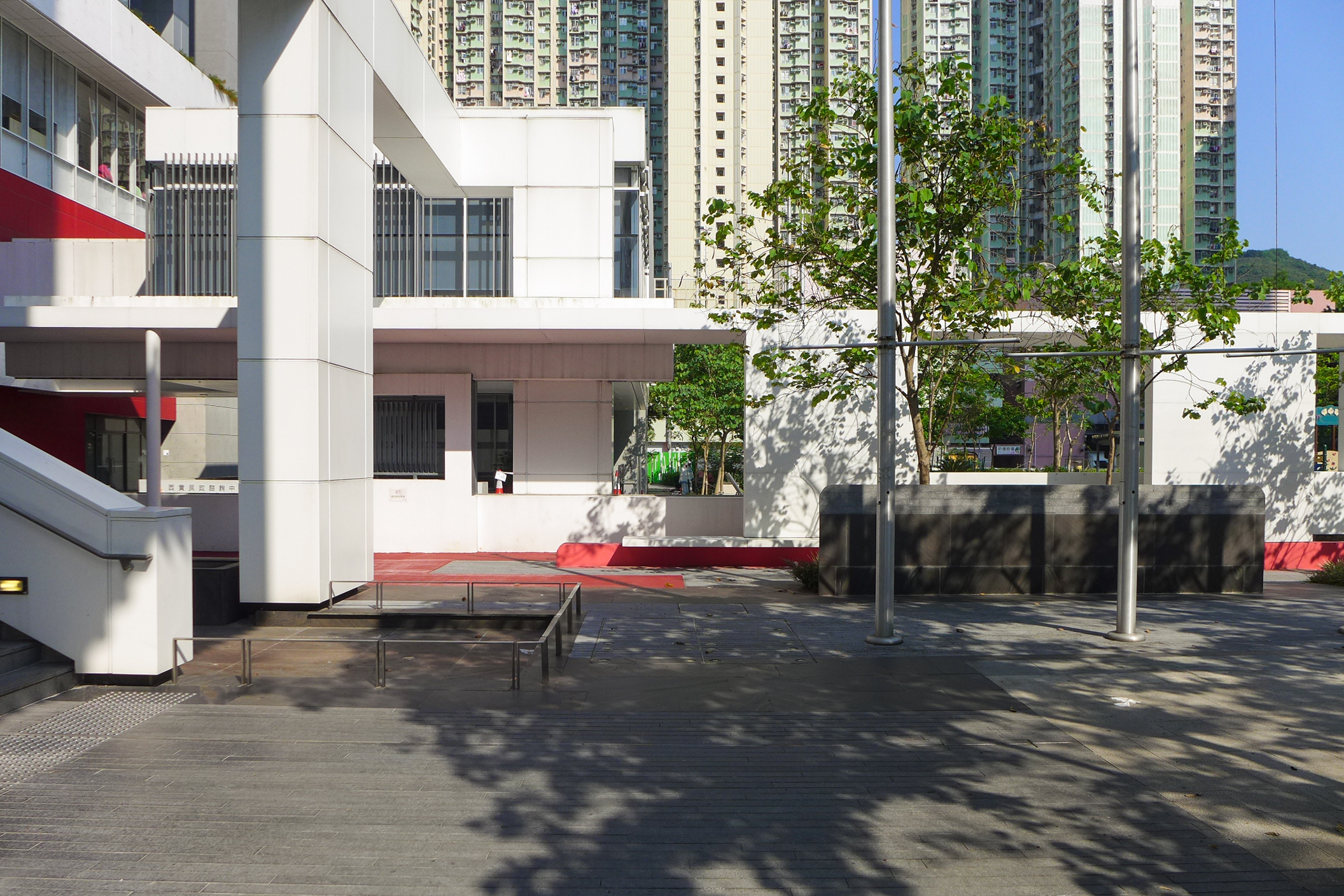 Sai Kung Tseung Kwan O Government Complex